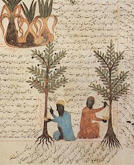 Arboriculture in a mediaeval Islamic manuscript